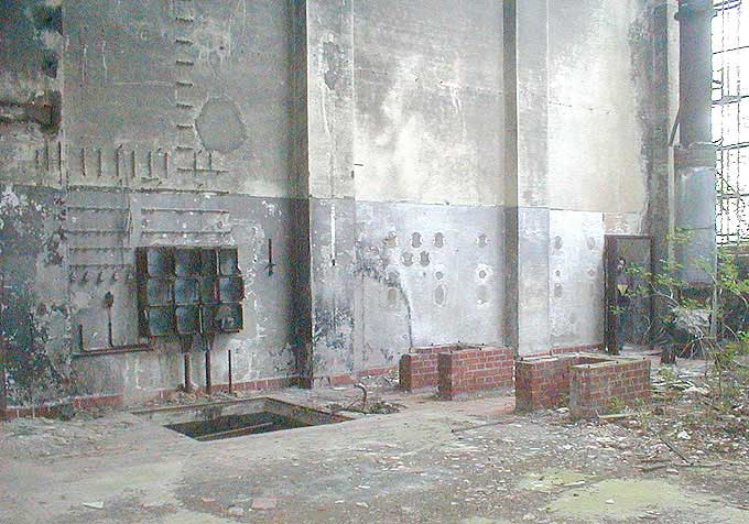 Winding engine house of Minden coal mine. Minden, North Rhine-Westphalia.